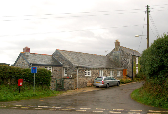 The crossroads at the centre of the village of Crugmere, Cornwall,UK